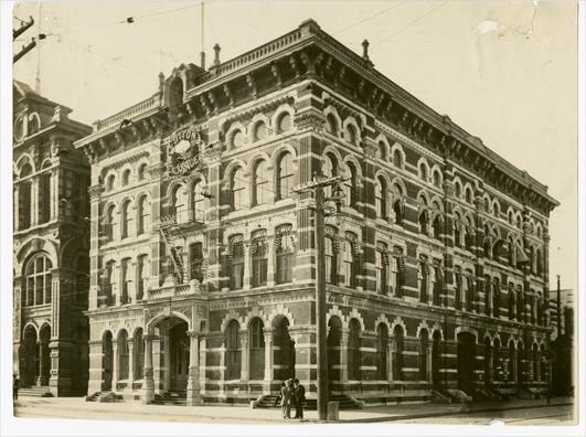 Built 1878 with John Moser as architect, demolished 1938.